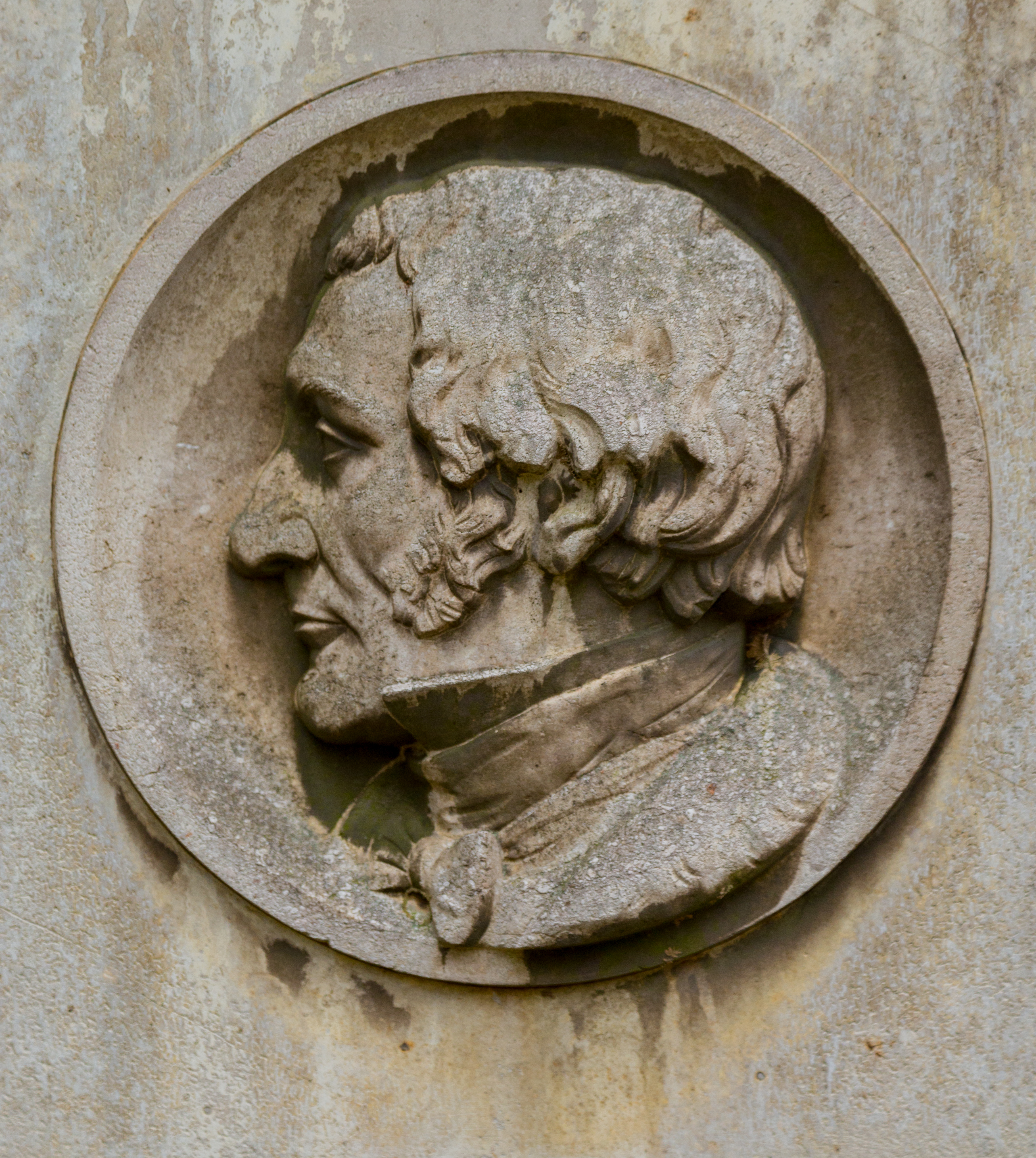 Grave of Ludwig Heinrich Lobeck in the Georgen-Parochial-Friedhof V, a cemetery in Friedrichshain, Bezirk Friedrichshain-Kreuzberg, Berlin, Germany.